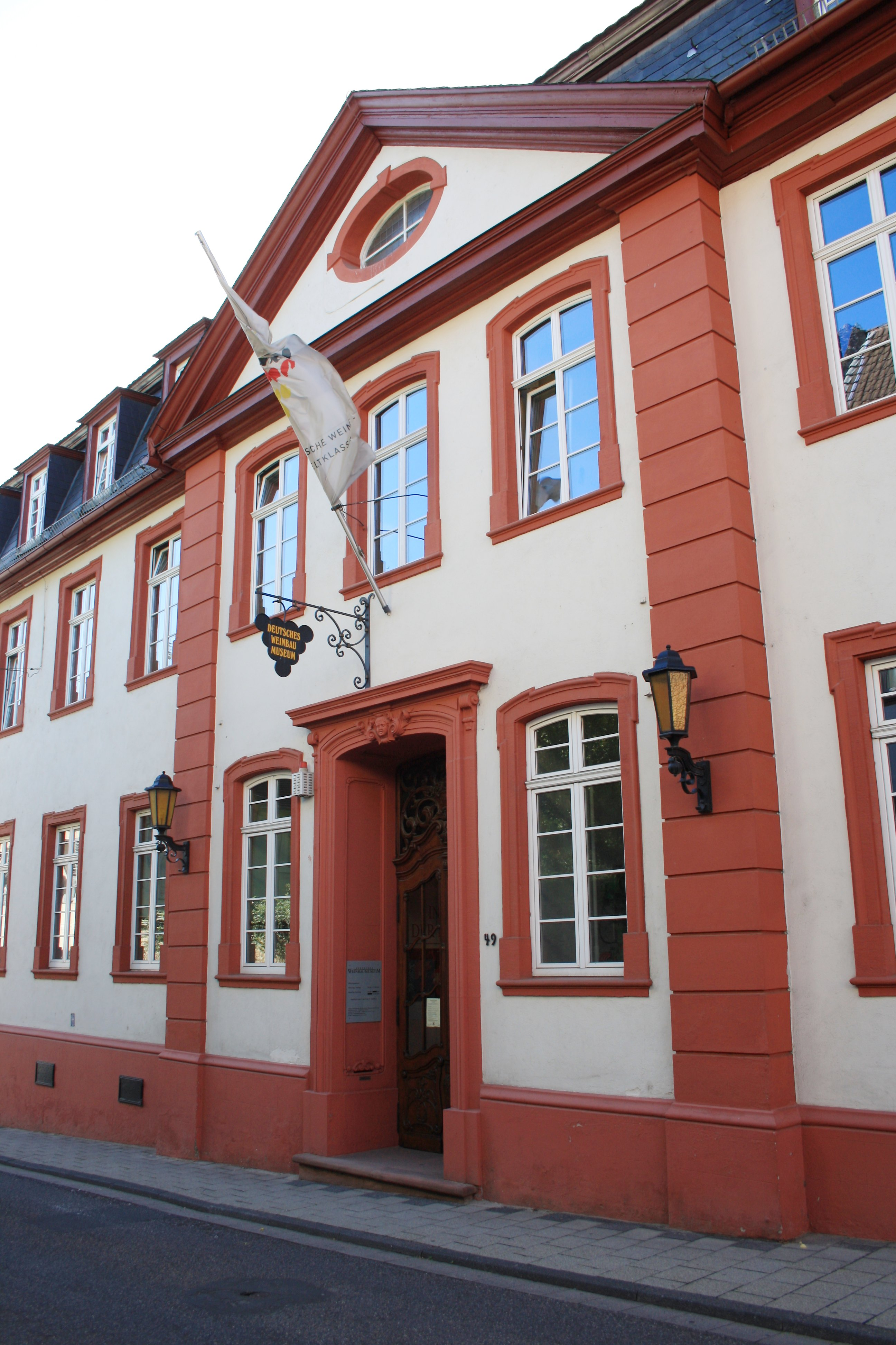 German museum of viticulture in Oppenheim